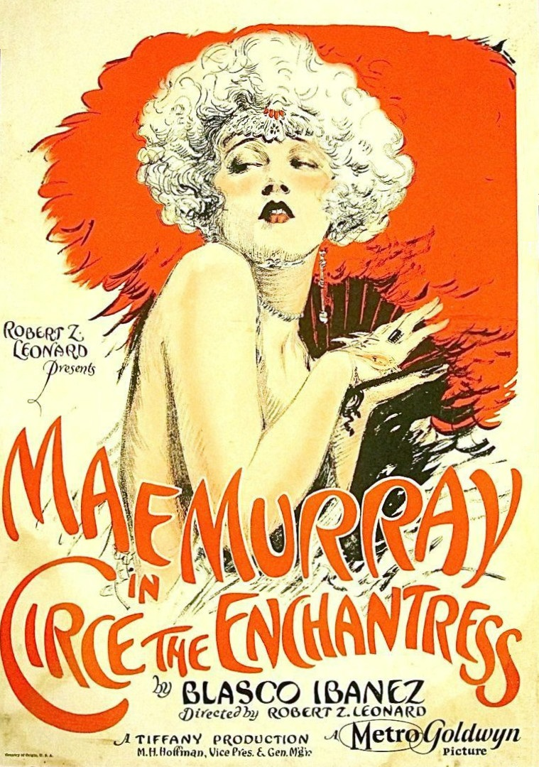 Window poster for the 1924 film Circe, the Enchantress.